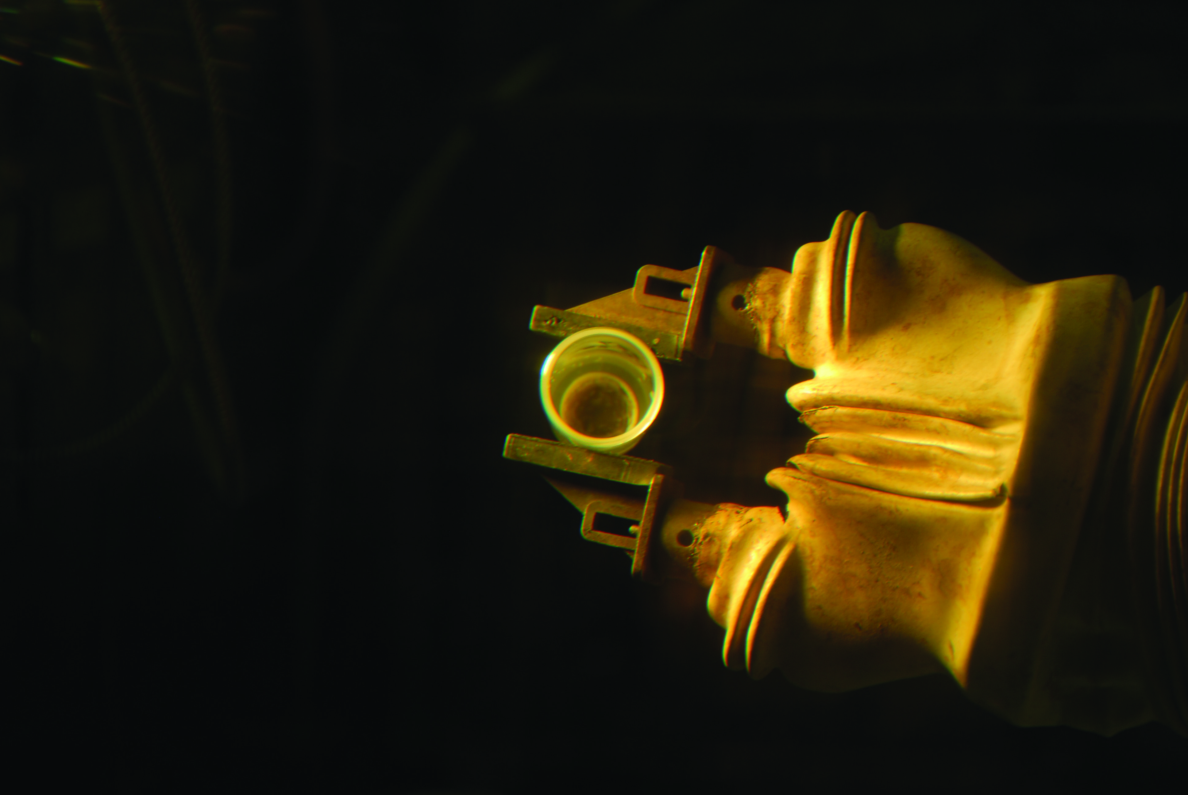 Idaho National Laboratory - Nuclear Materials Characterization Department. Hot cell manipulator handling a glass container.